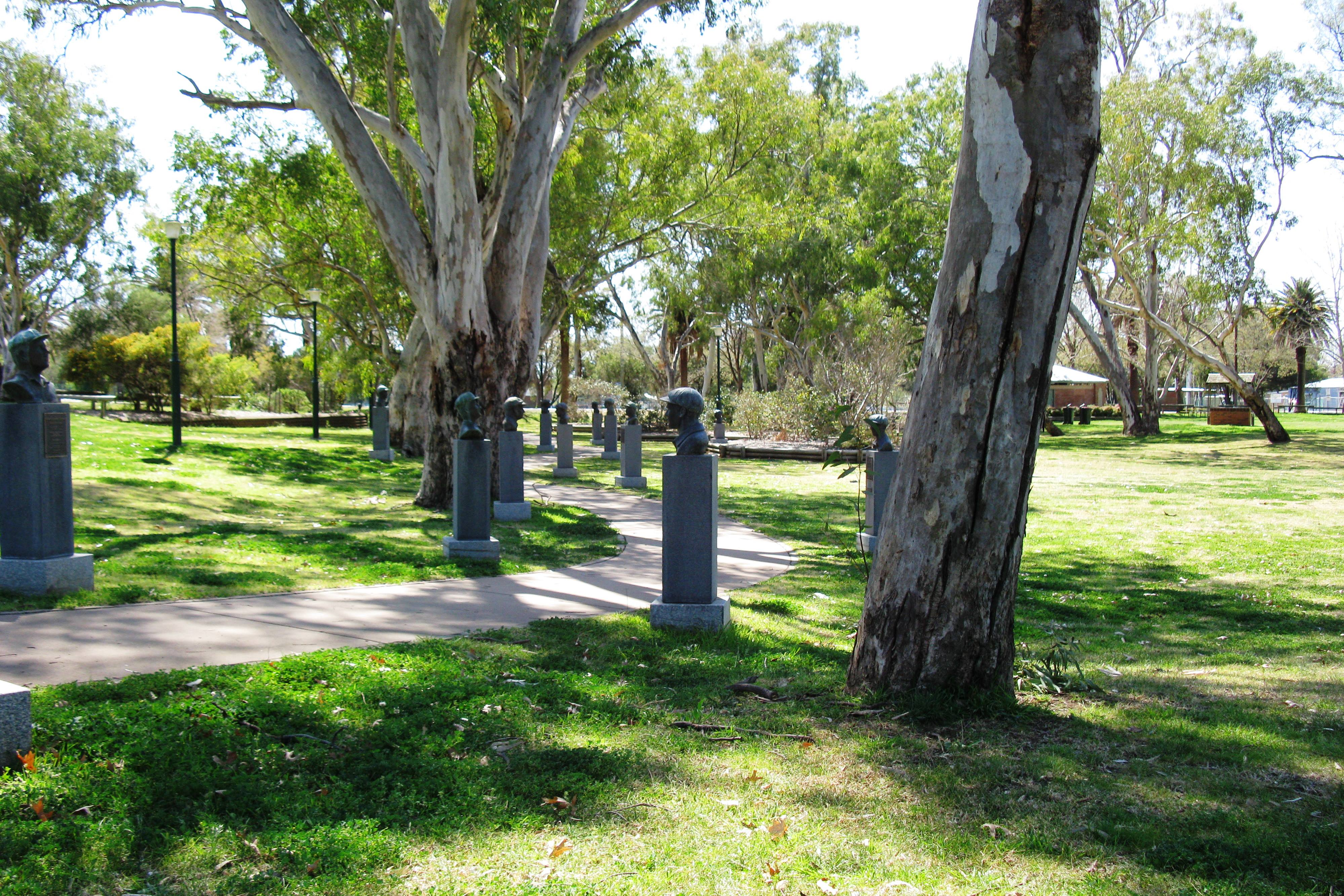 Winding path through Jubilee Park in Cootamundra, showing some of the busts on their pedestals